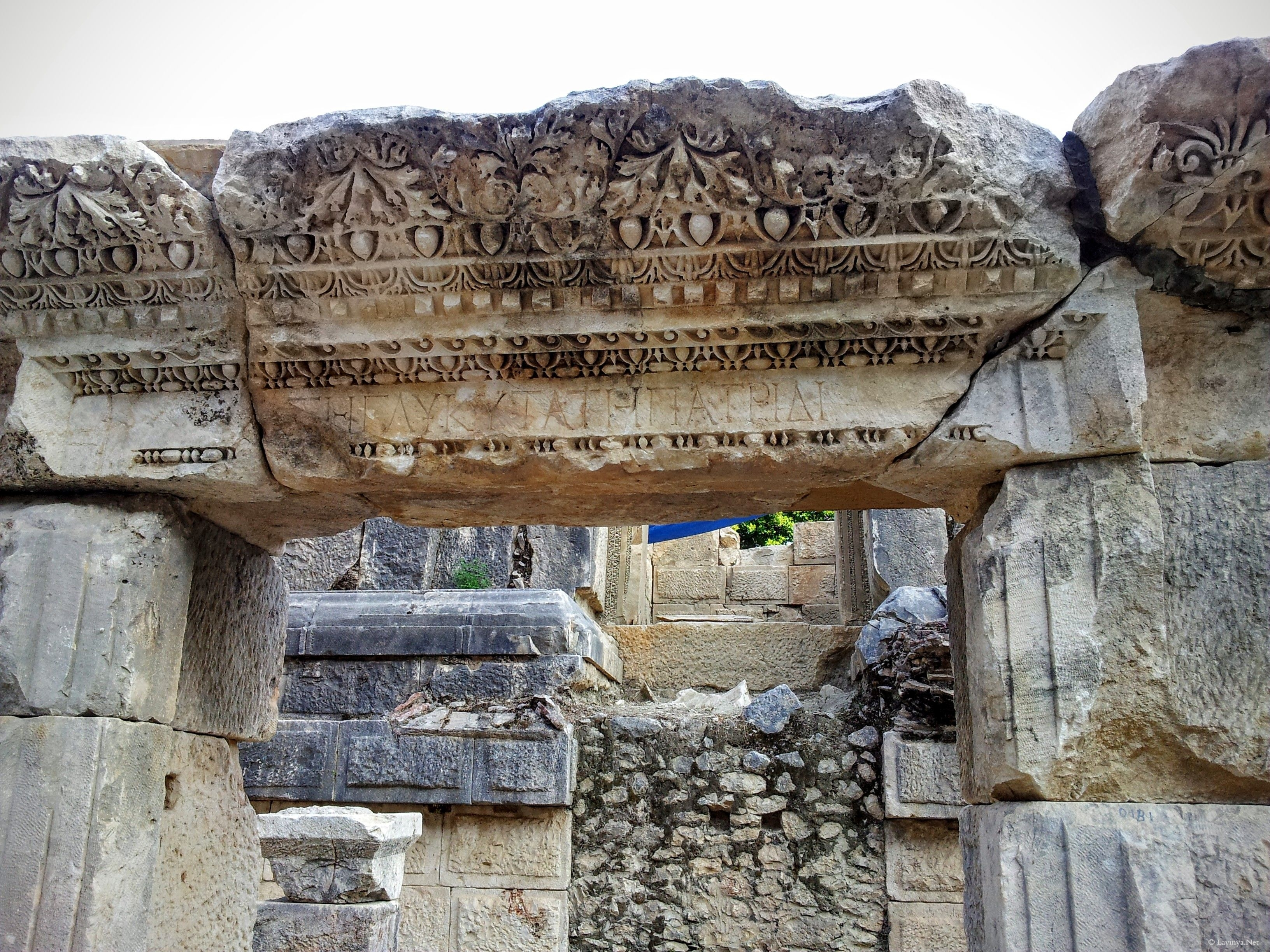 Myra Ancient City-Ruins A view from the place.Demre/Antalya August 2013